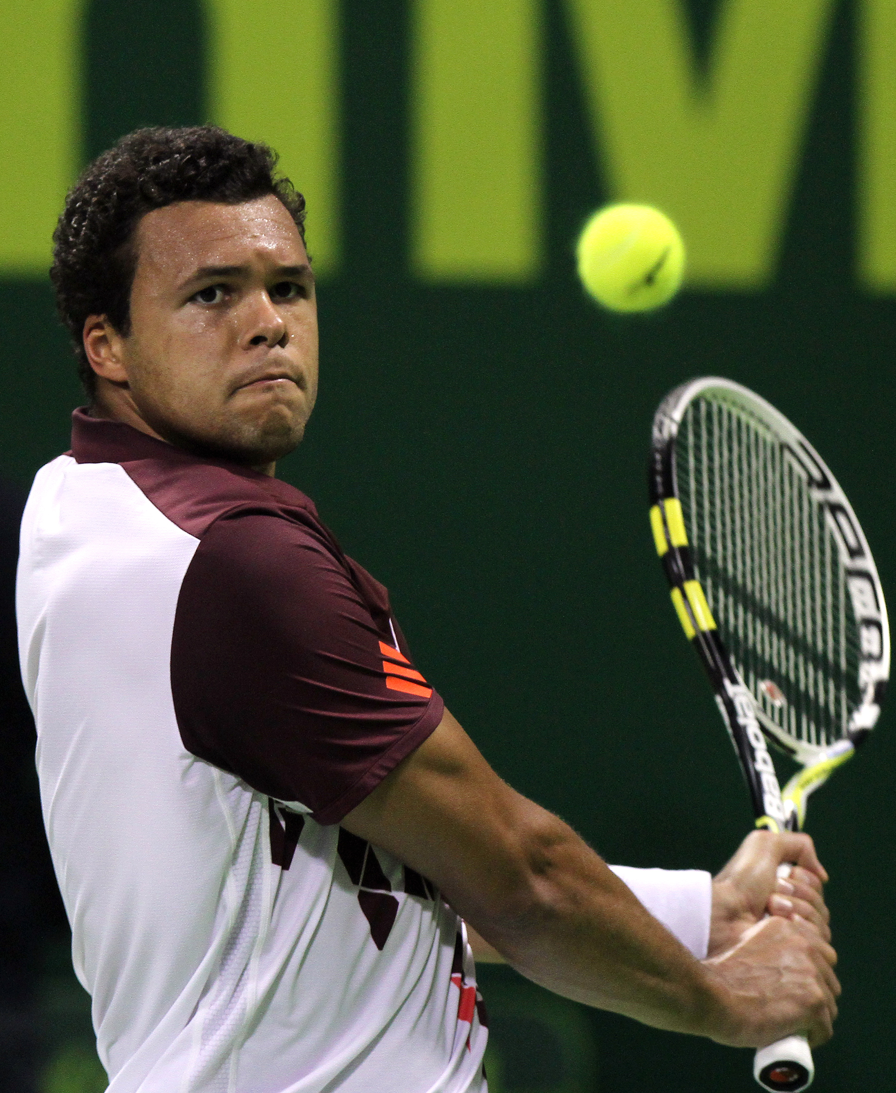 Jo-Wilfried Tsonga during the final of the Qatar Exxonmobil Open in Doha. Pic by Vinod Divakaran